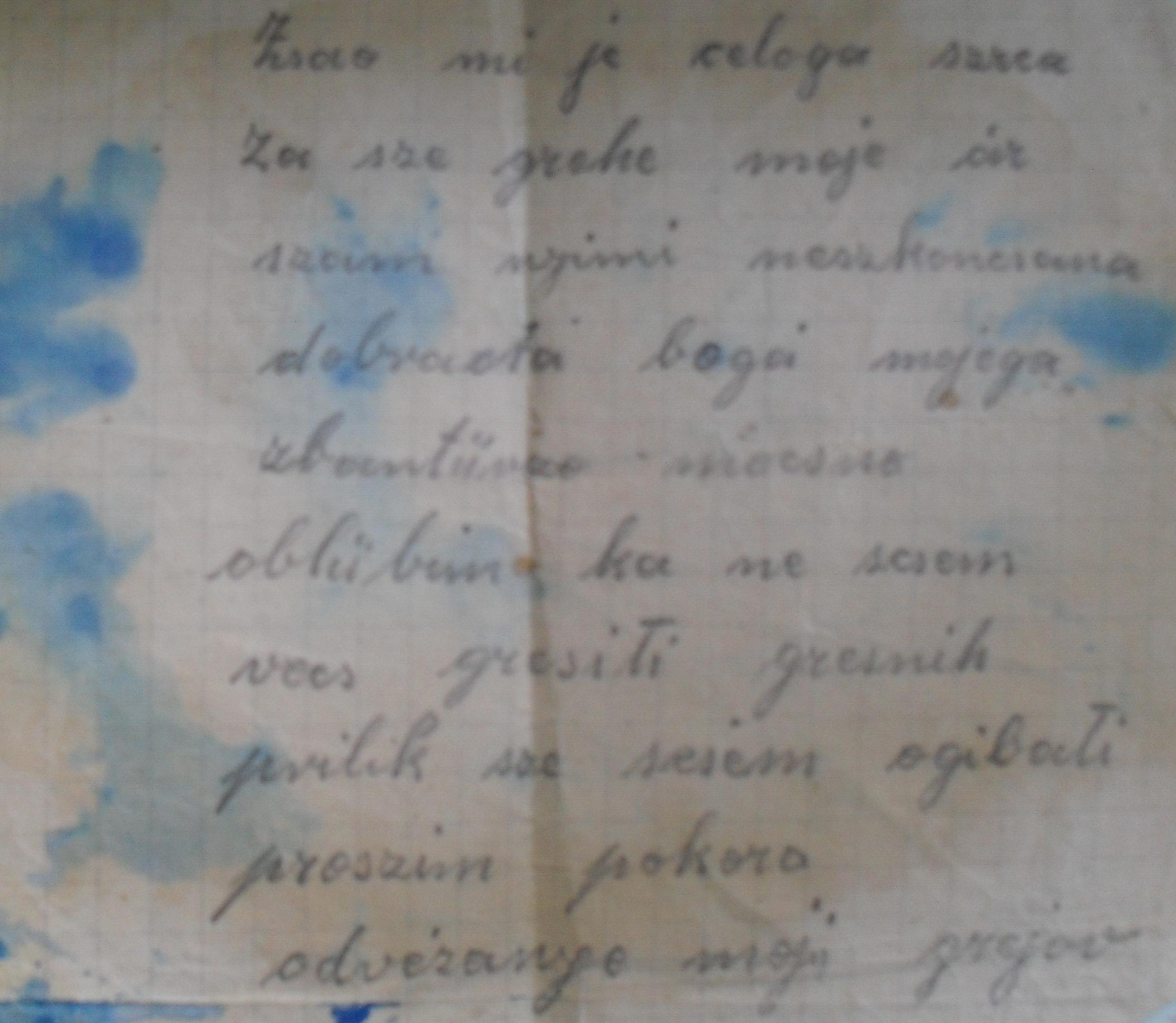 Penitential prayer in prekmurian language (prekmurščina) from Anna Gáspár in Kétvölgy (1940s-1950s). This manuscript the own of my family. Anna Gáspár was my grandmother.